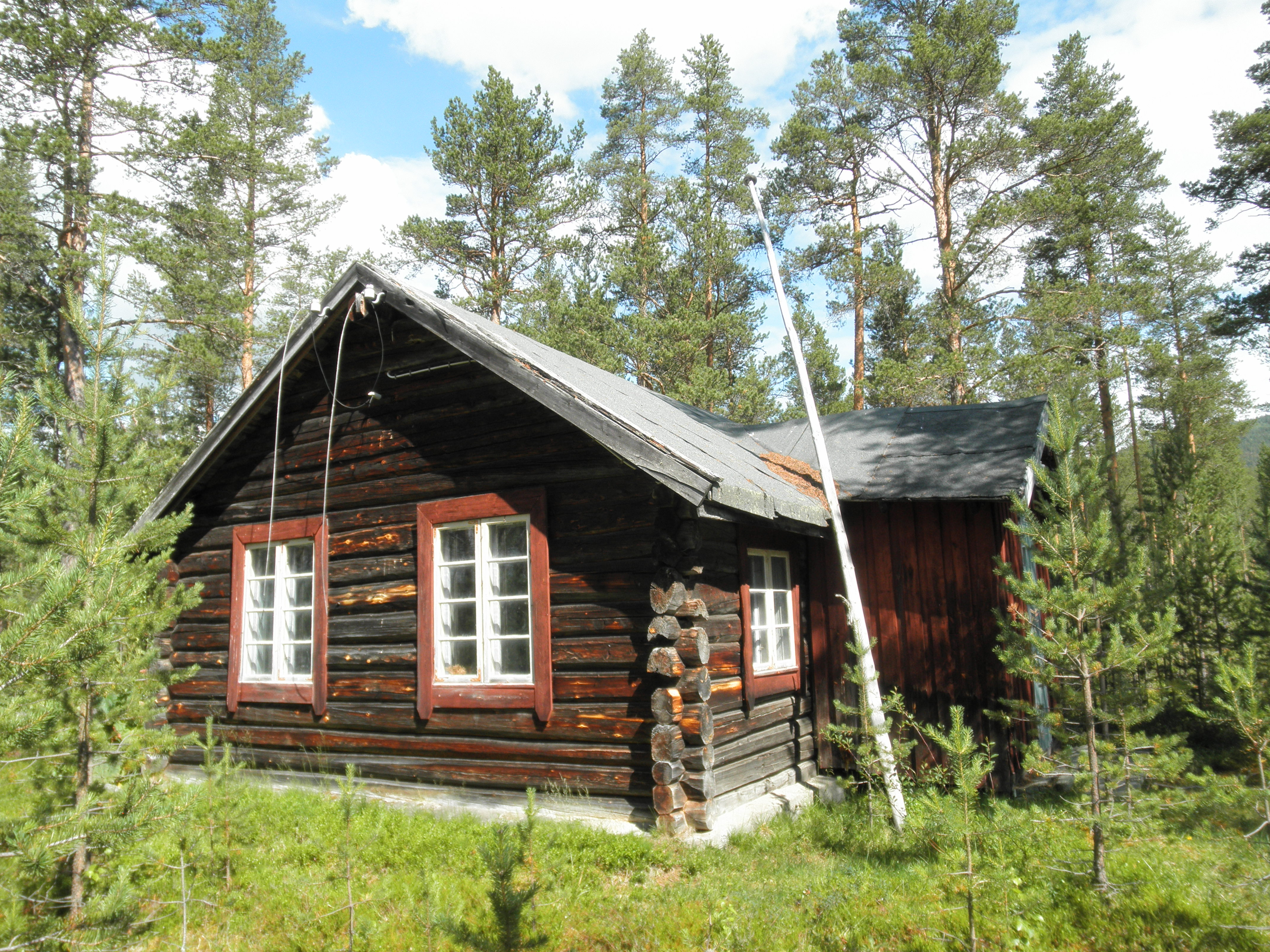 A cabin belonging to the Norwegian painter Gunnar Wefring (1900-1981) and his family.